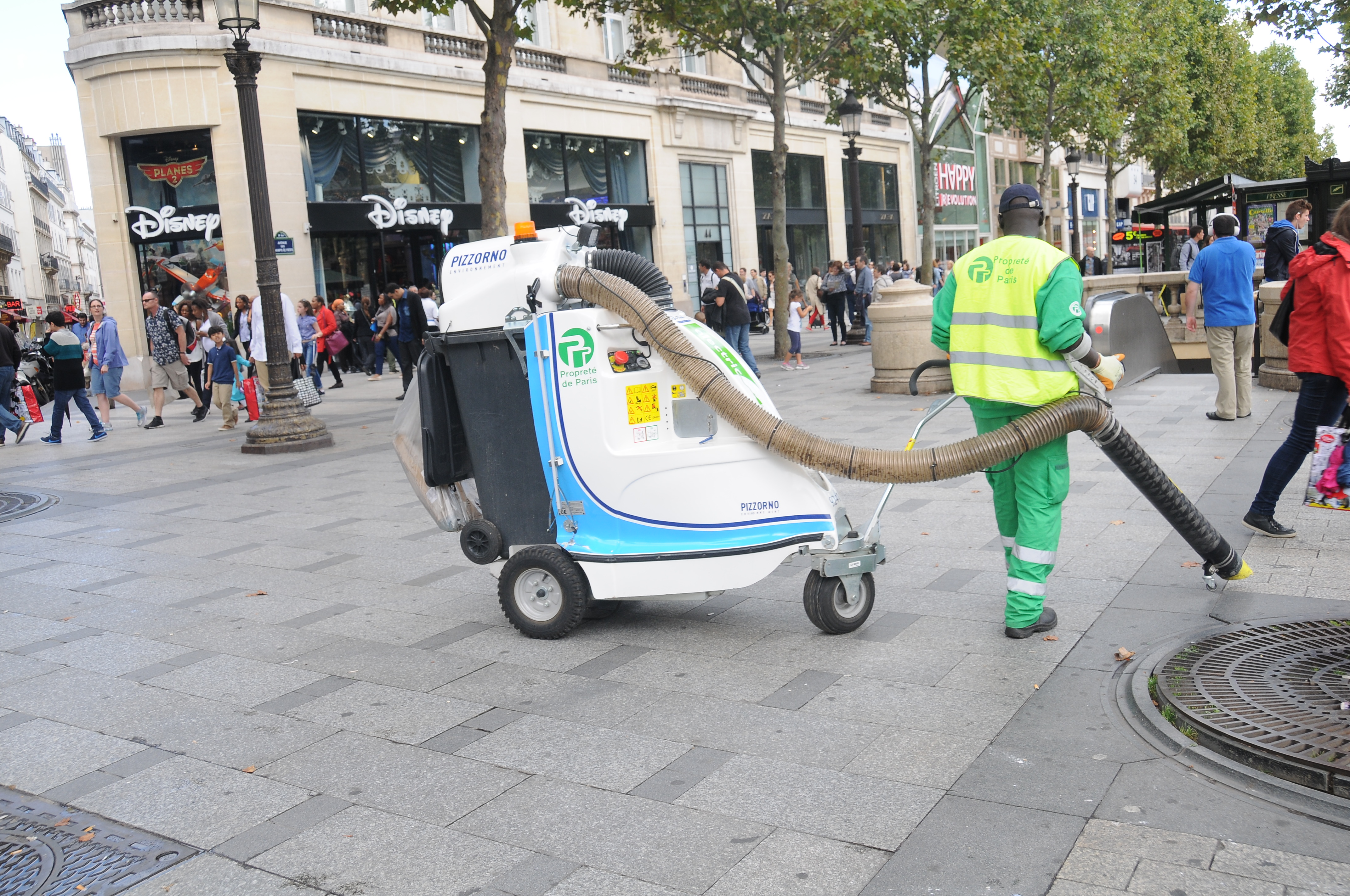 Avenue des Champs-Élysées Paris in 2014